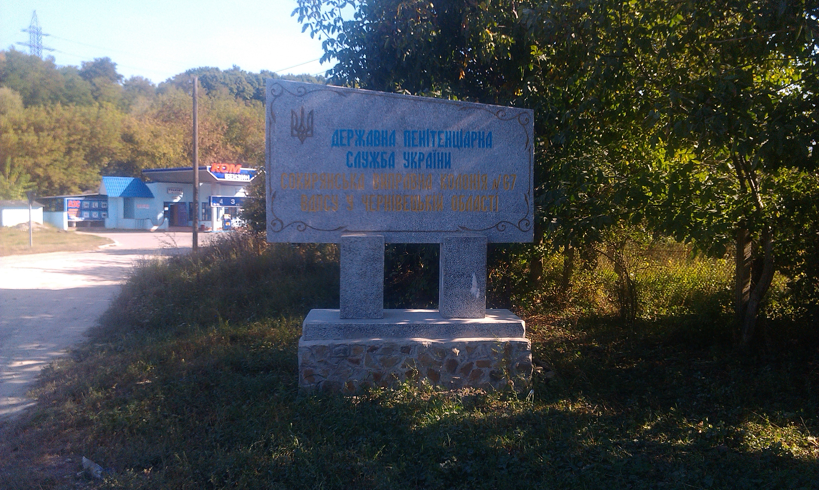 coffin